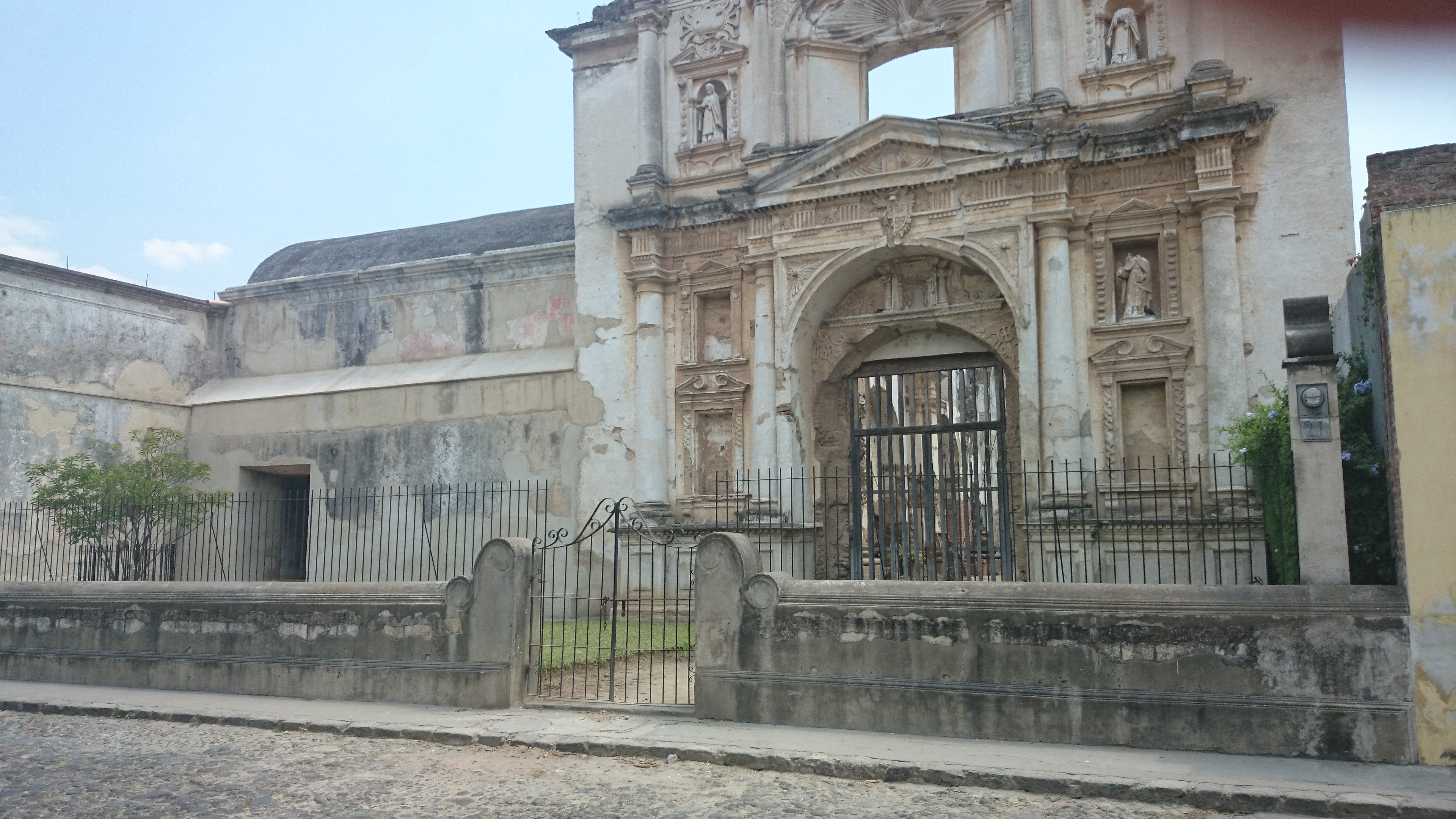 Iglesia derruida en Antigua, Guatemala. 2015